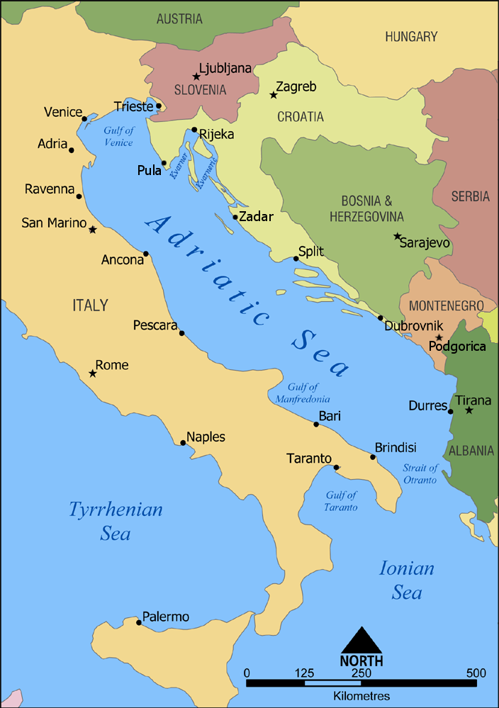 A map showing the location of the Adriatic Sea. Created by NormanEinstein, May 20, 2005.